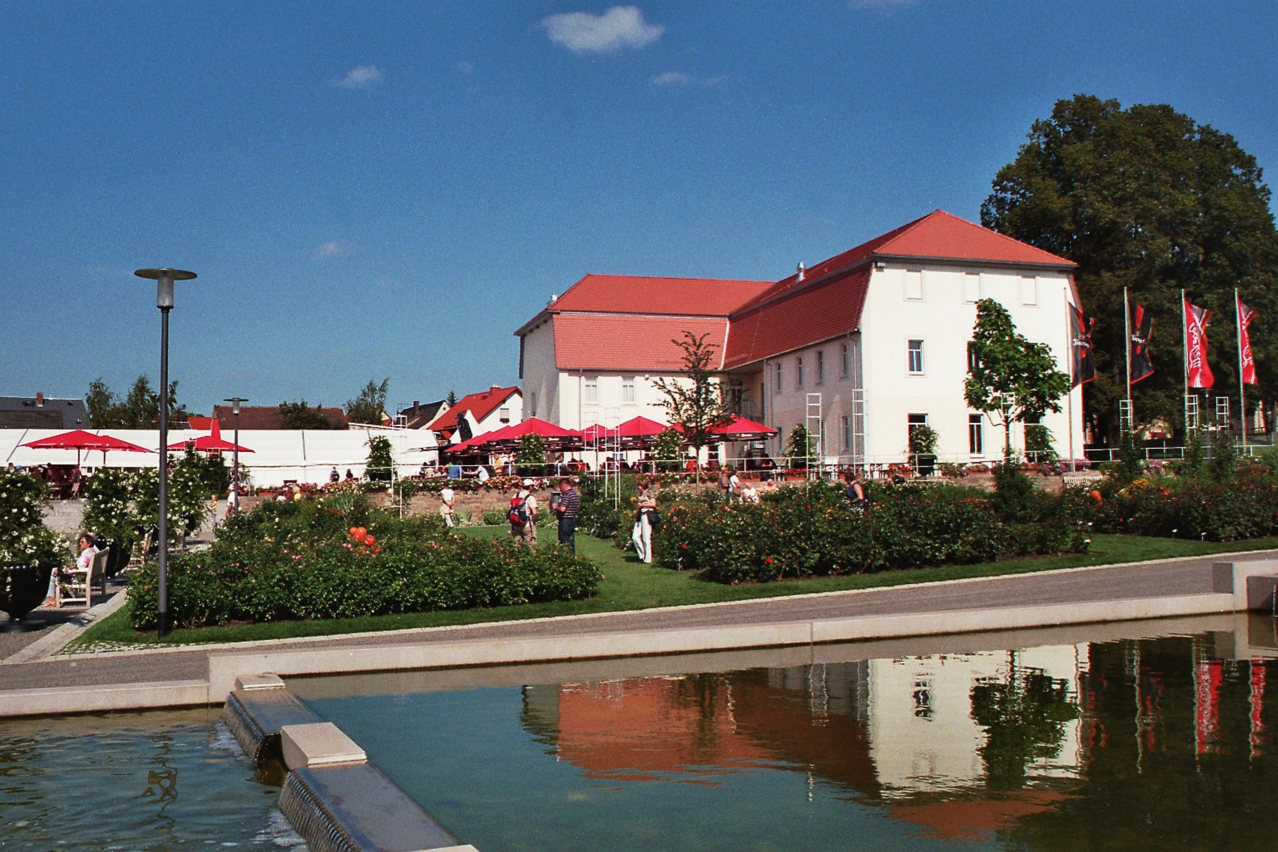 Ronneburg, the manor house Friedrichshaide